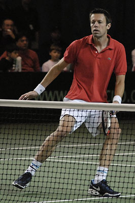 Daniel Nestor (Canada) during 2009 Davis Cup against Ecuador.